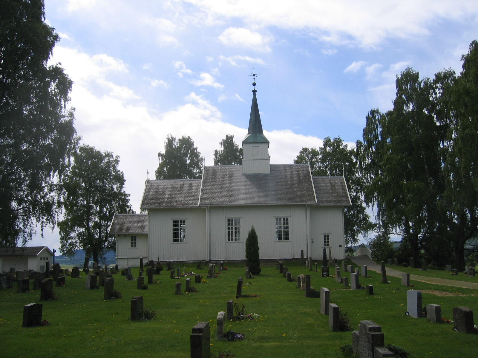 Heni church